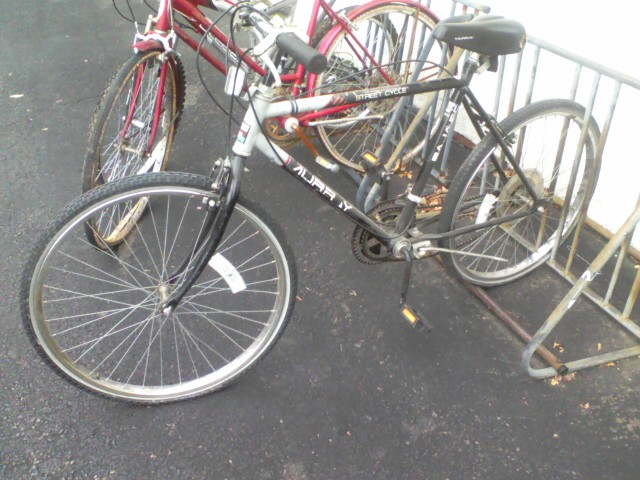 This is a picture of a Murray USA bicycle.